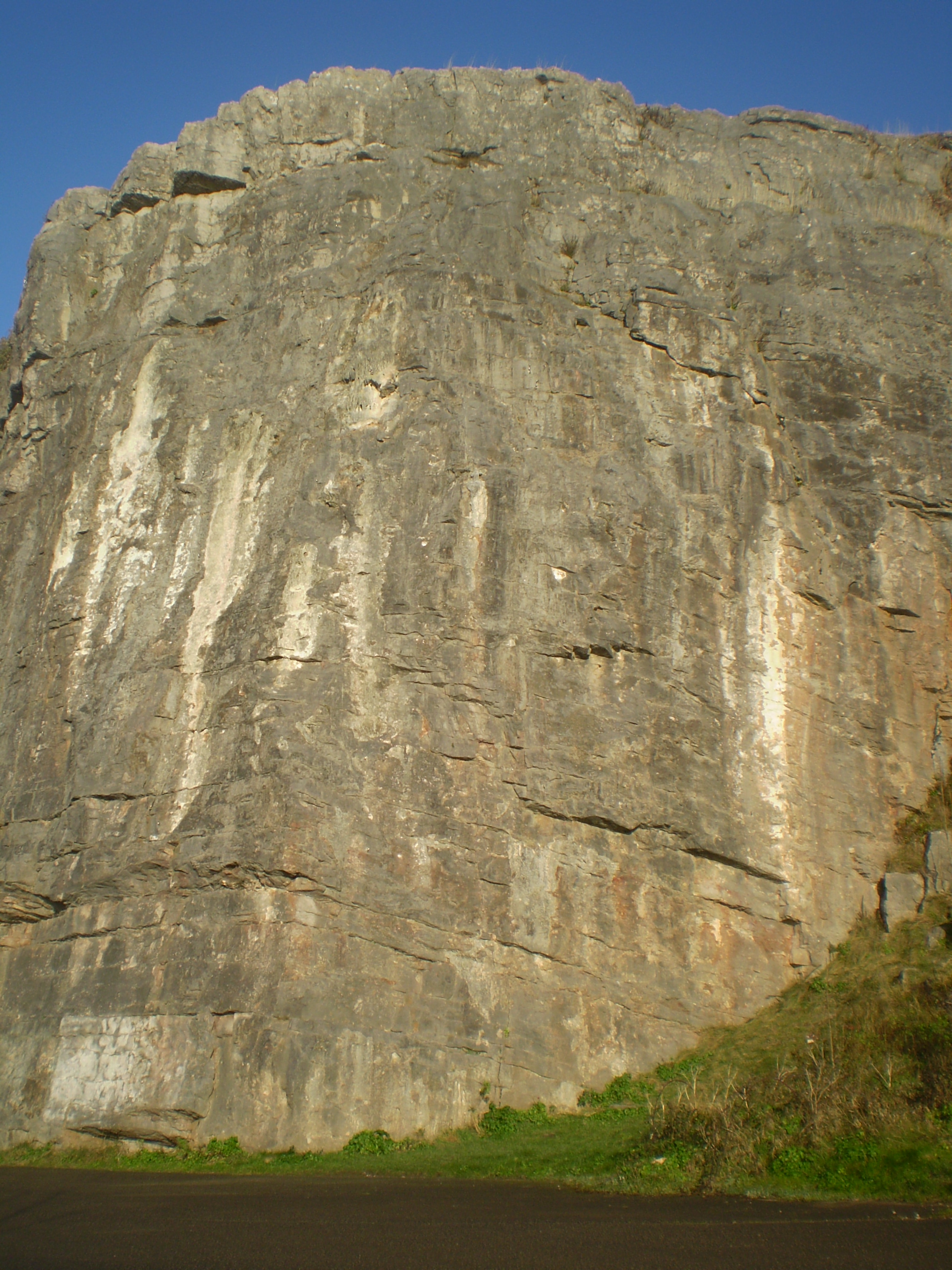 cliff on mynydd marian hill, north wales